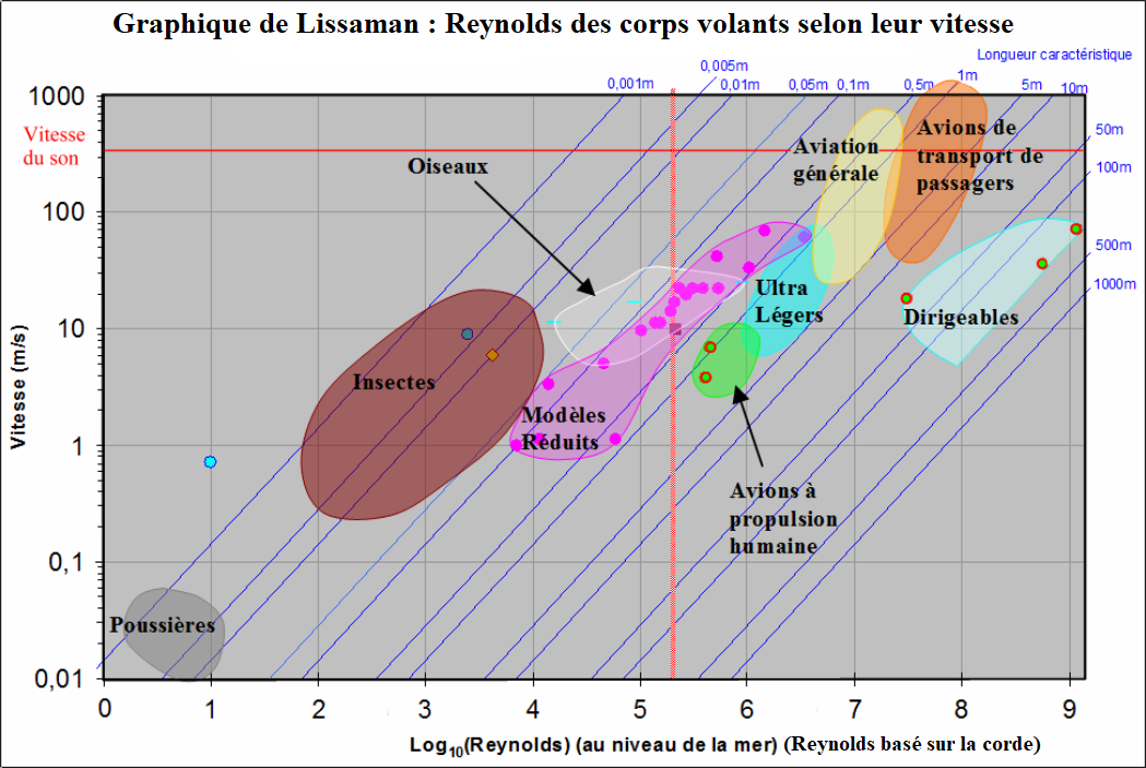 Reynolds flying or floating bodies (for airships) according to their speed and the chord of their wings (or their length, for airships). This chord or length is indicated by diagonals, as well as the speed of sound.